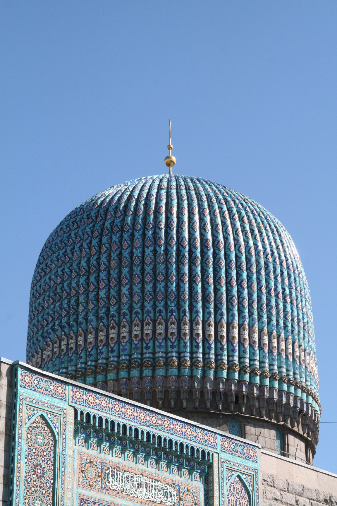 Saint Petersburg Mosque